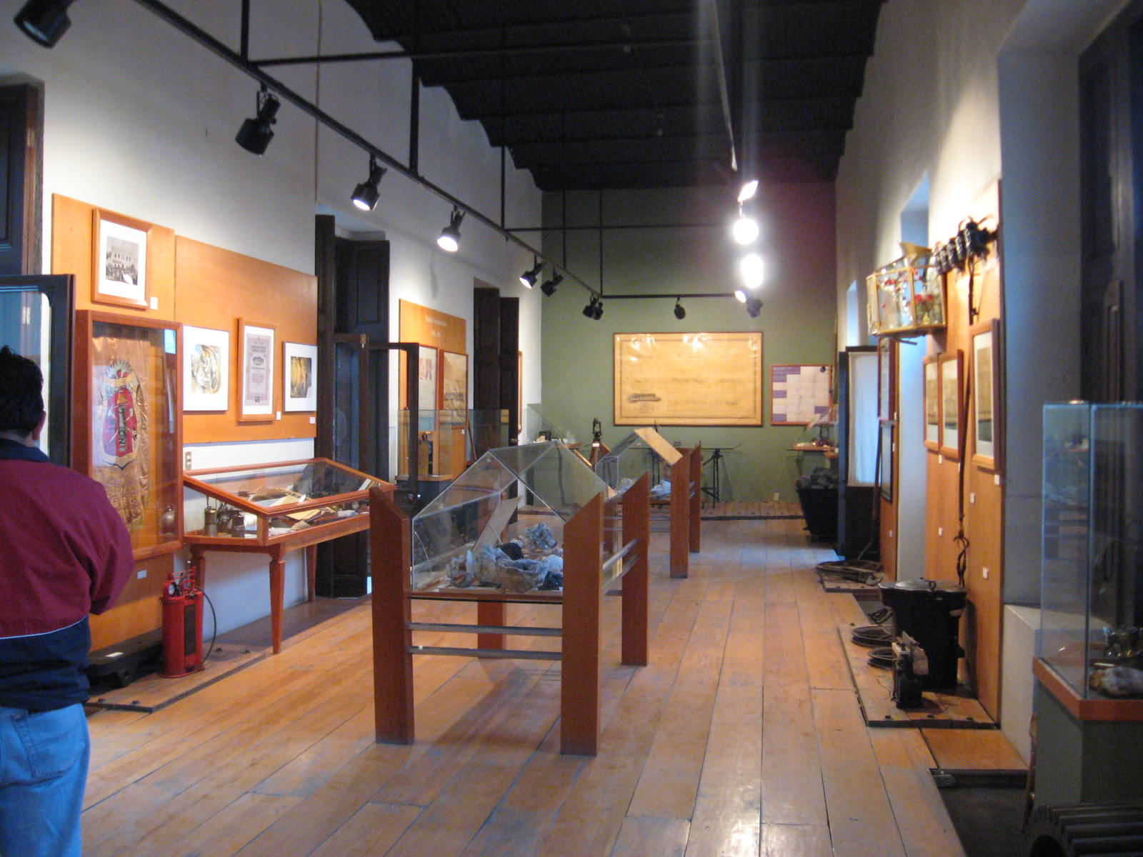 Hallway at Historic Archive and Museum of Mining in Pachuca Mexico